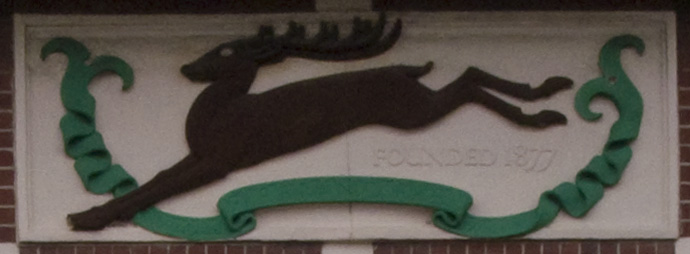 Perry Barr Stadium in Perry Barr, Birmingham, England. A greyhound (and formerly athletics) stadium. Bas relief of a stag, the badge of Birchfield Harriers, by Birmingham sculptor William Bloye.